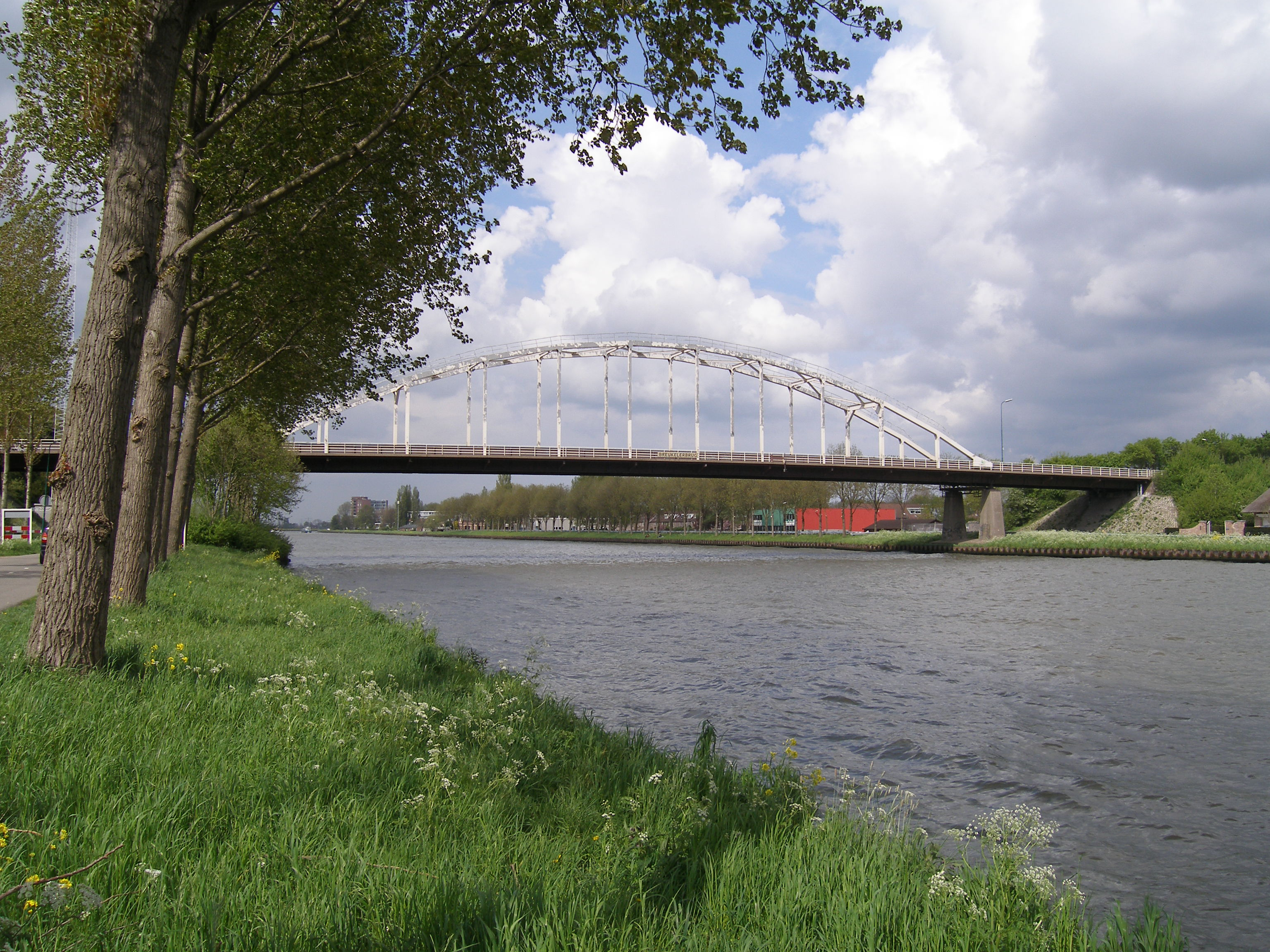 Bridge over the Amsterdam-Rijnkanaal near Breukelen